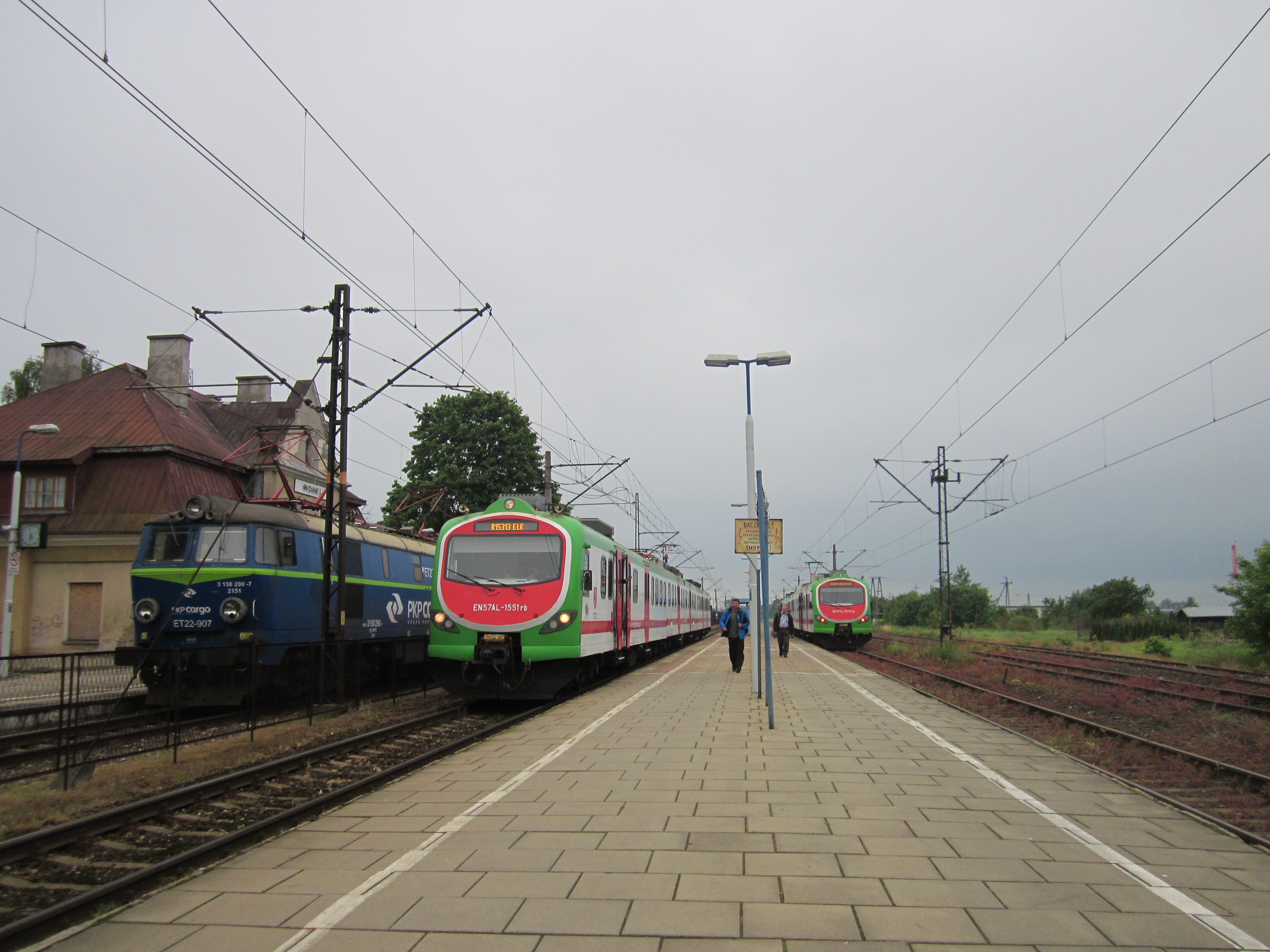 Trains in Mońki